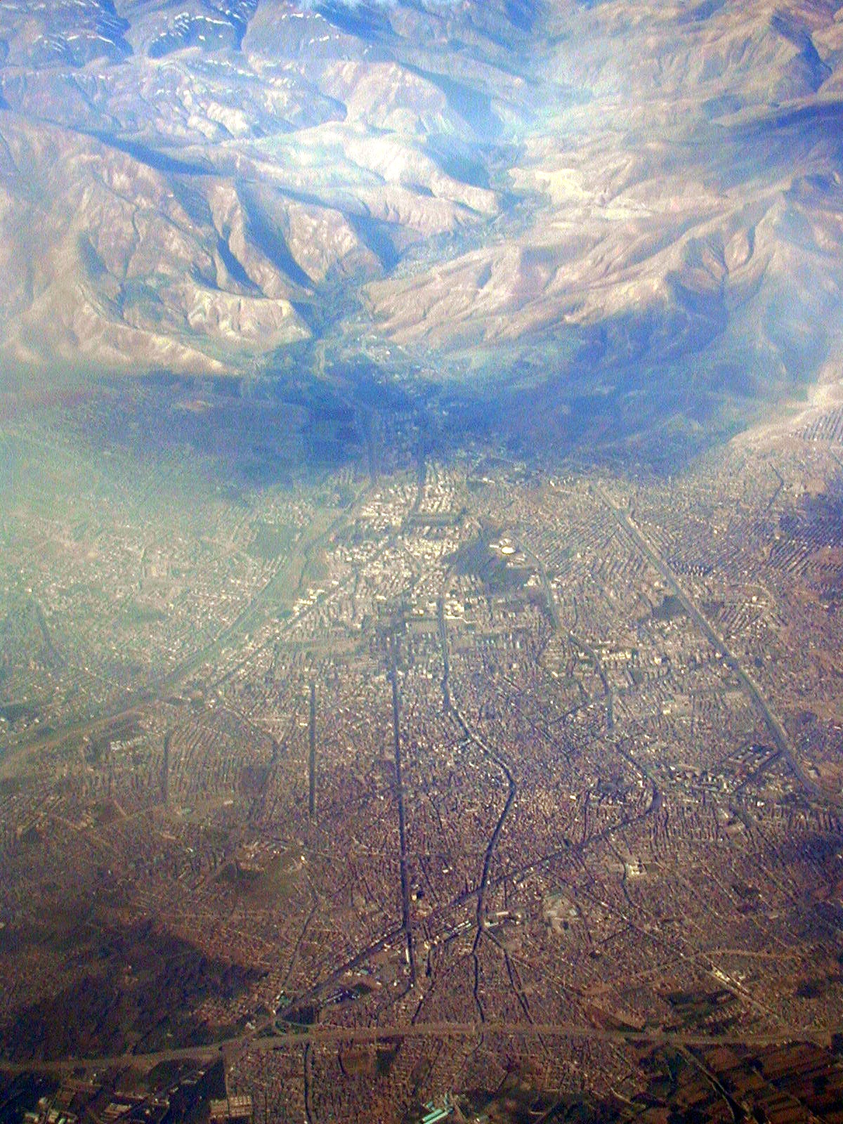 The city of Orumieh, Iran. Taken from a plane.